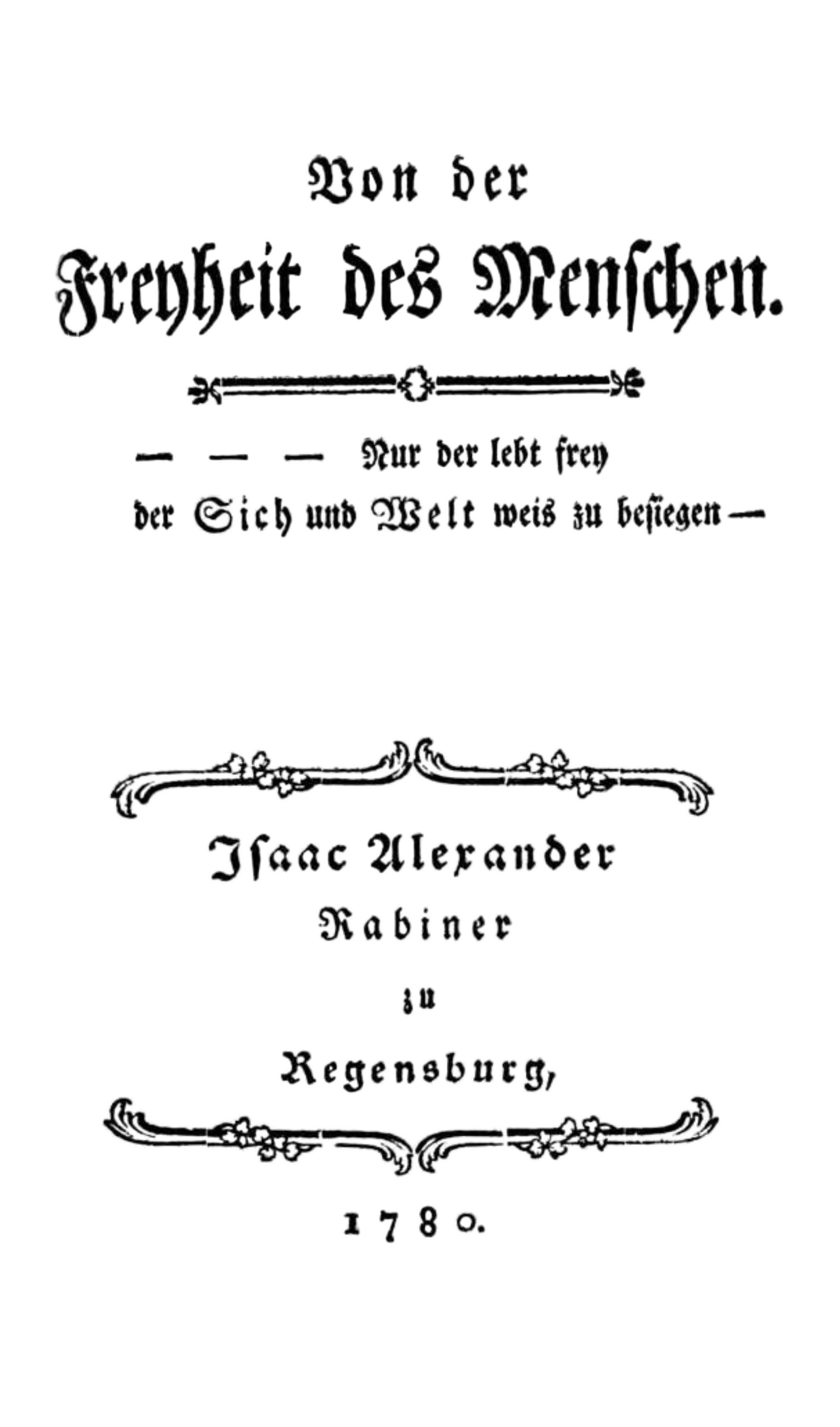 Title page of the first edition of „On the Liberty of Men“ by ratisbon Rabbi Isaac Alexander